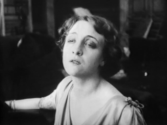 Lyda Borelli finds Cecilia's diary in the movie Malombra (1917)